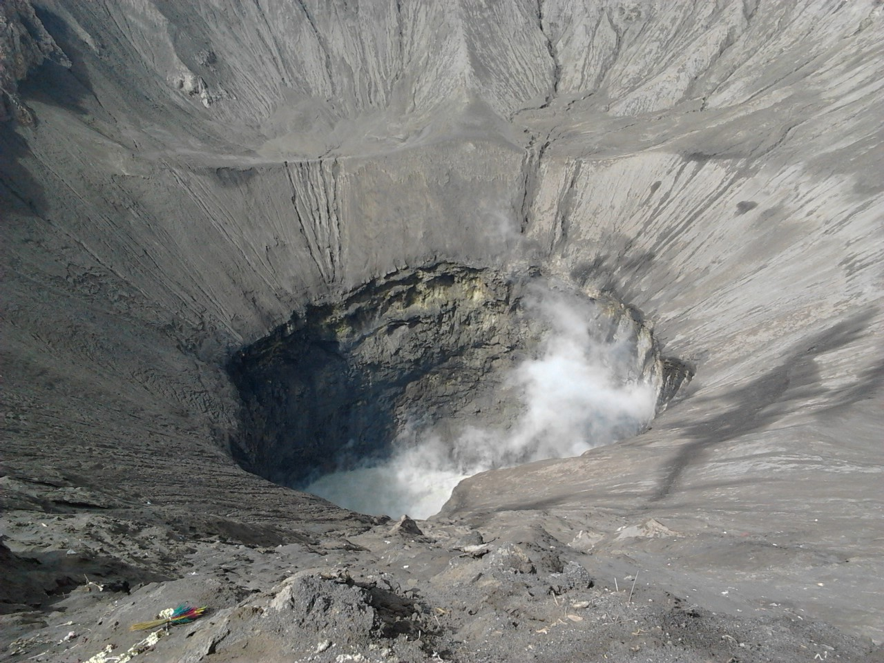 Crater of Mount Bromo filled with water from early rain